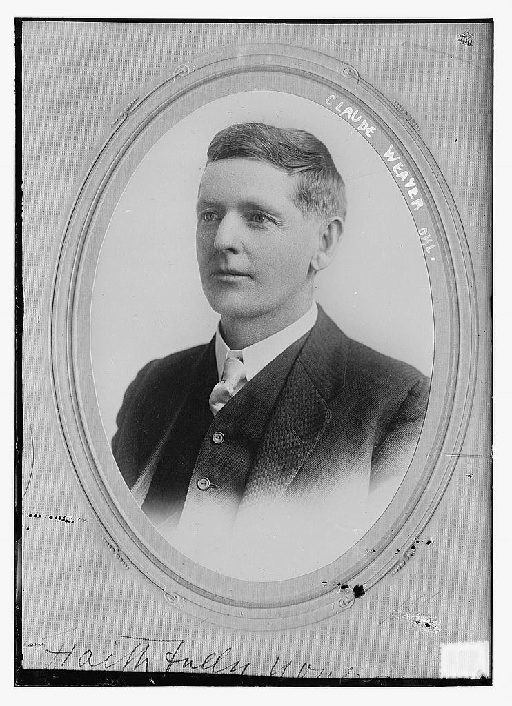 Bain News Service,, publisher. Claude Weaver, Oklahoma [between 1910 and 1915] 1 negative : glass ; 5 x 7 in. or smaller. Notes: Title from unverified data provided by the Bain News Service on the negatives or caption cards. Forms part of: George Grantham Bain Collection (Library of Congress). Format: Glass negatives. Repository: Library of Congress, Prints and Photographs Division, Washington, D.C. 20540 USA, General information about the Bain Collection is available at Persistent URL: Call Number: LC-B2- 2460-16